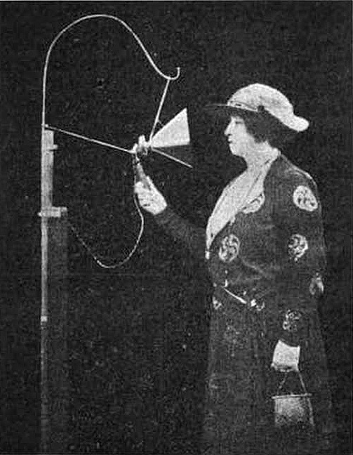 Photograph of opera soprano Nellie Melba making a broadcast over the Marconi Chelmsford Works radio station in England on 15 June 1920. This was one of the earliest radio broadcasts. It was heard all over Europe and was influential in building support for radio broadcasting. Original caption: "The voice of Melba being directed into a microphone, hooked up with a 15 kw. set transmitted on a wave length of 2,800 meters."